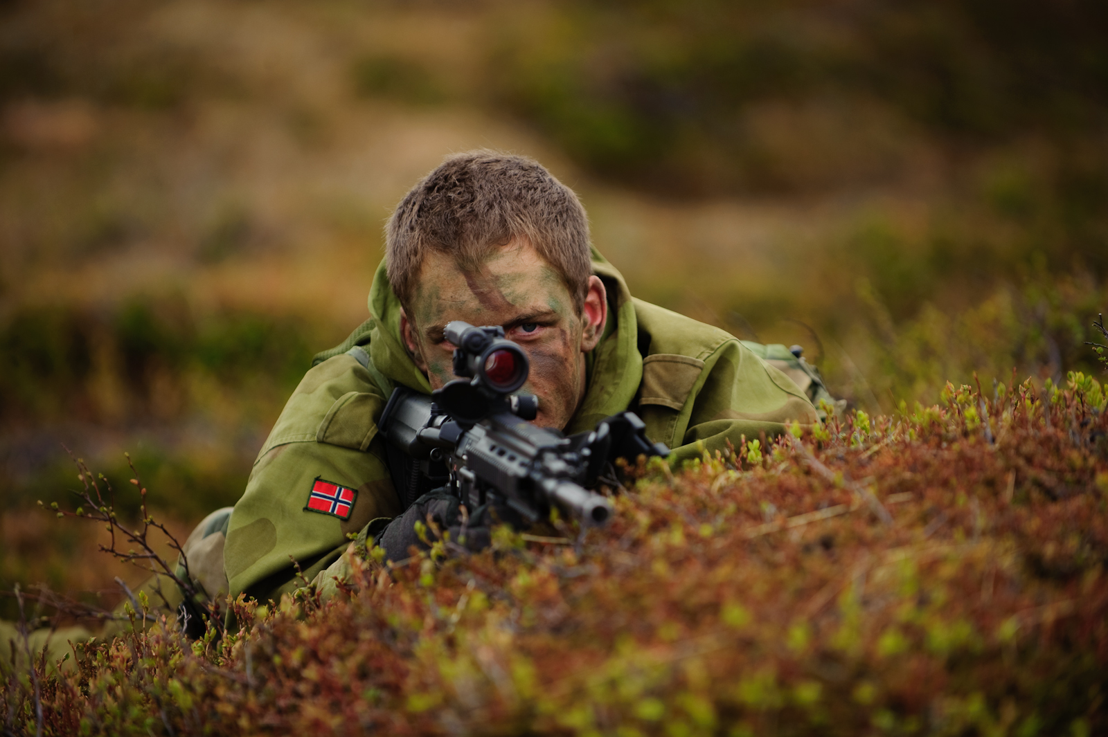 Sniper-soldier from the Second Batallion of the Norwegian Army